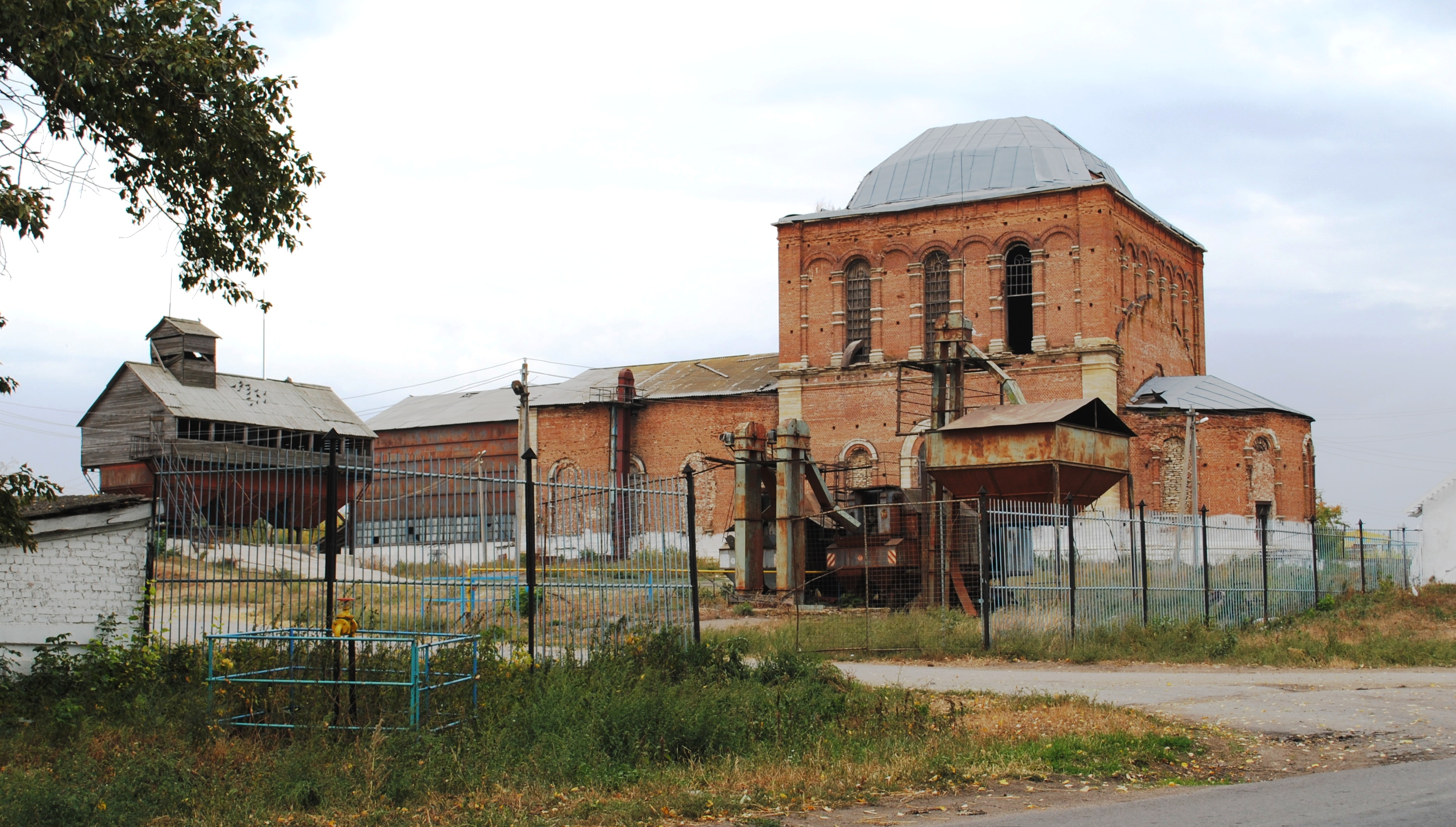 Sergievskoe